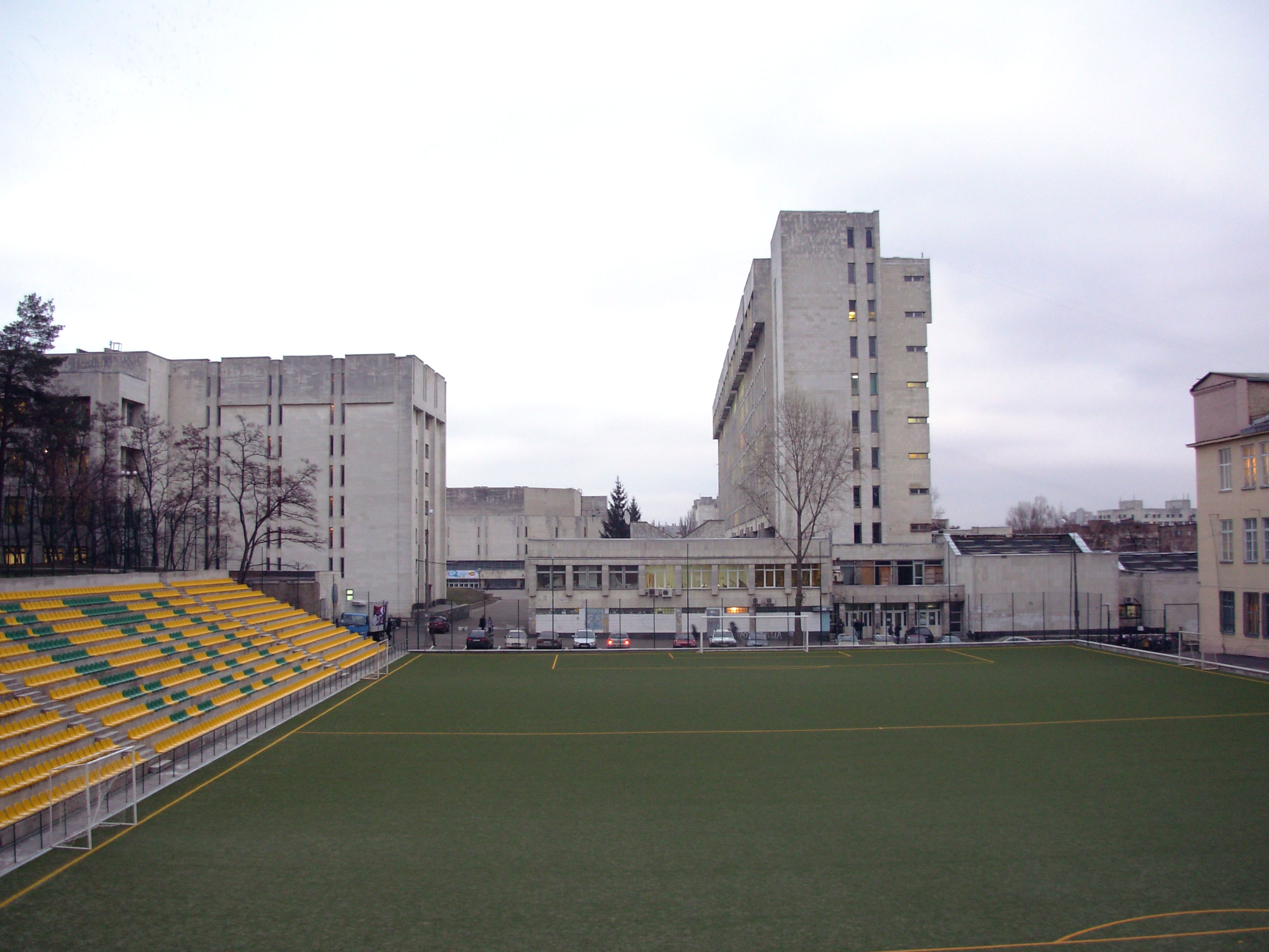 NTUU KPI Minor Sports Arena in Kyiv, Ukraine